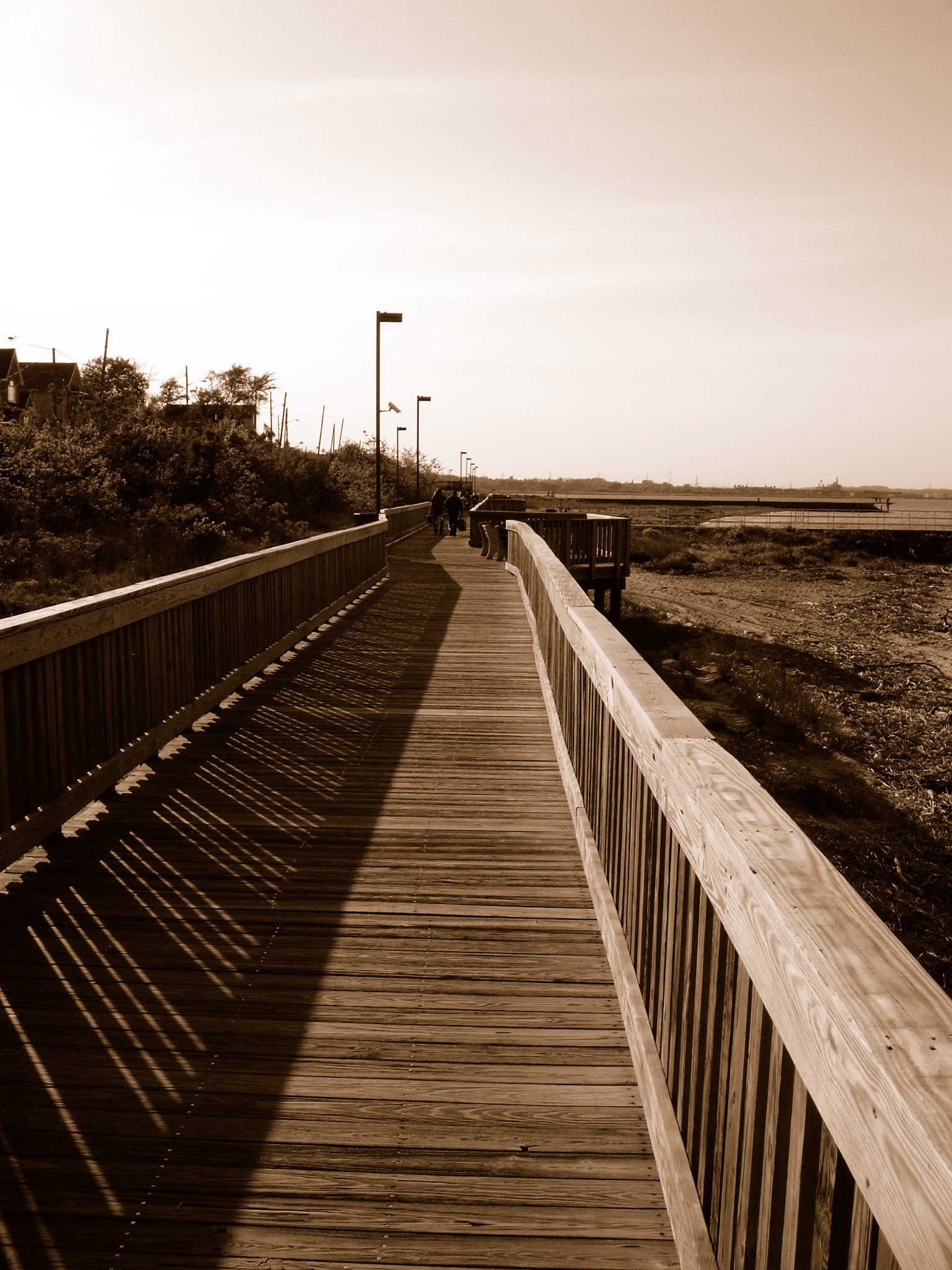 Photograph of boardwalk at Laurence Harbor Waterfront Park in Laurence Harbor, NJ, taken by Pat Noble in May 2007.